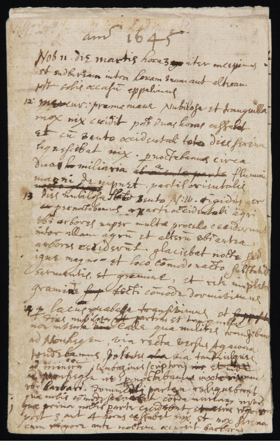 First page of an eight-page diary kept by John Winthrop the Younger of a trip from Boston to Saybrook, Connecticut, and his return, November-December 1645, written in both English and Latin. The Winthrop Family Papers, General Collection, Beinecke Rare Book and Manuscript Library, Yale University, New Haven, Connecticut.